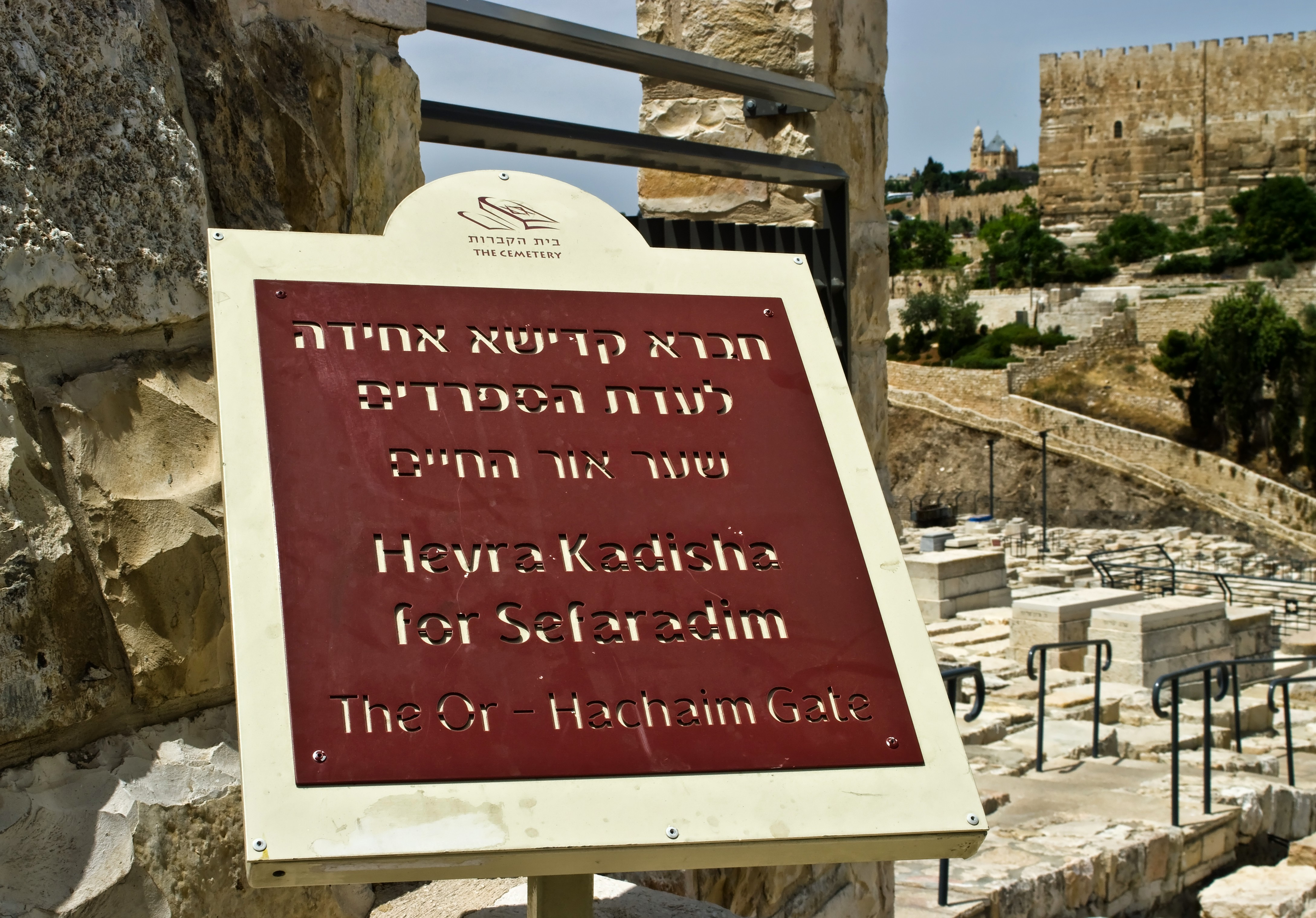 Mount of Olives Jewish Cemetery - Hevra Kadisha for Sefaradim The Or-Hachaim Gate